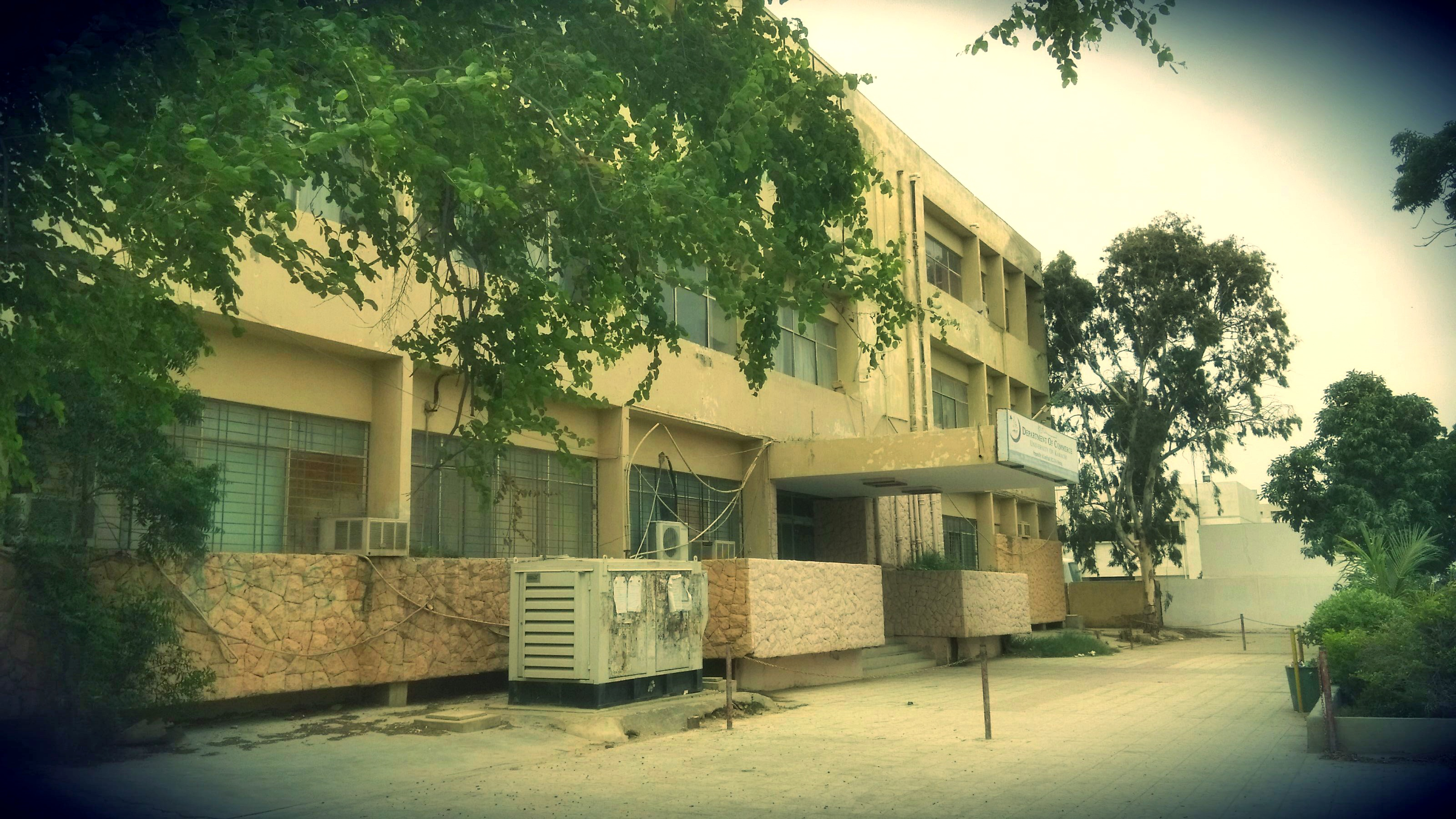 Picture of Department of Commerce (Commerce Building)